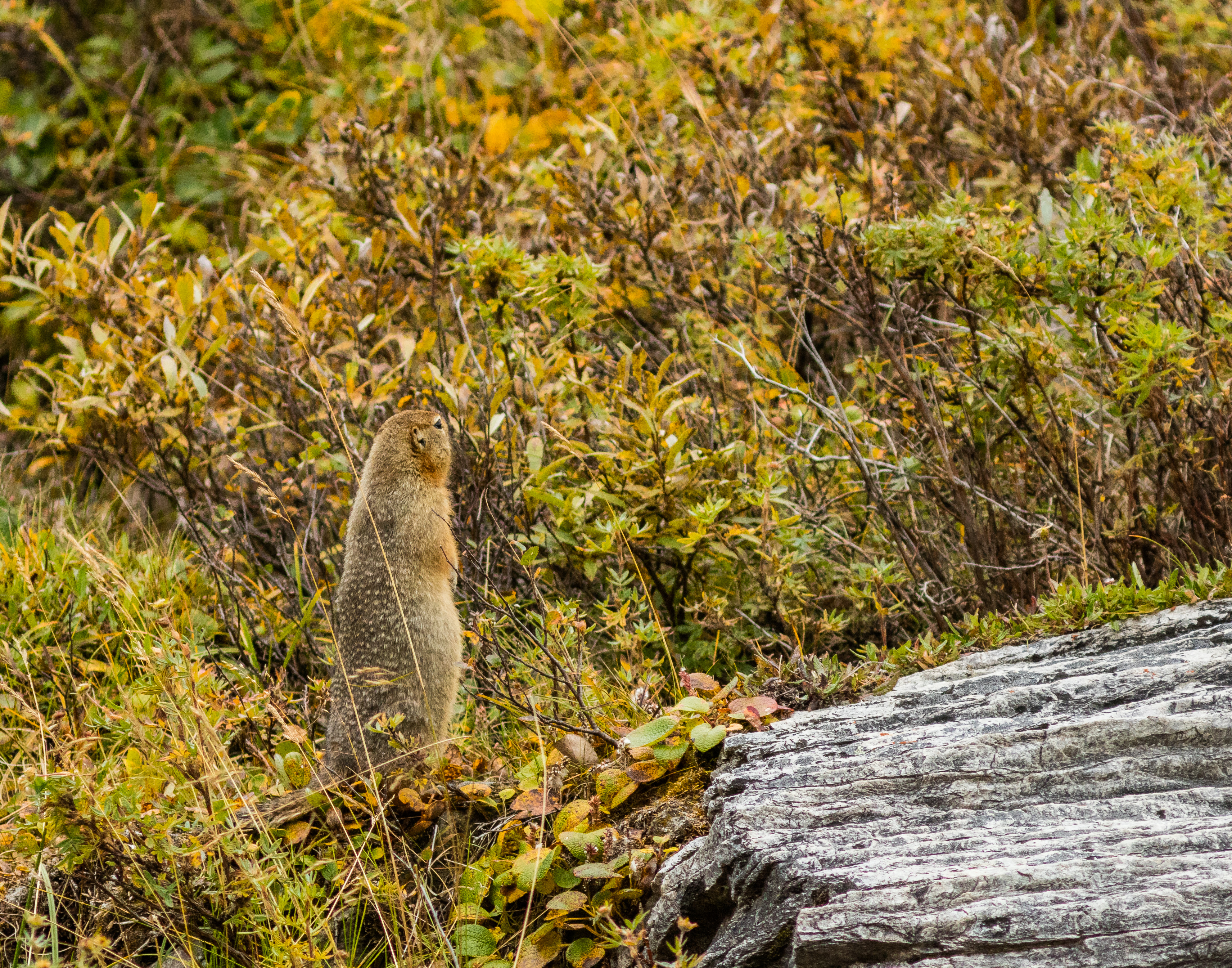 Arctic ground squirrel (Spermophilus parryii), Denali National Park, Alaska, United States